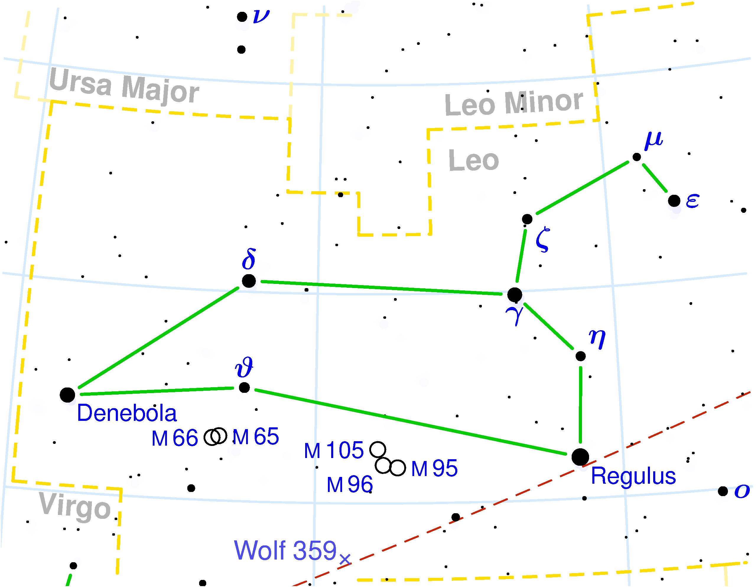 This is a celestial map of the constellation Leo, the Lion.